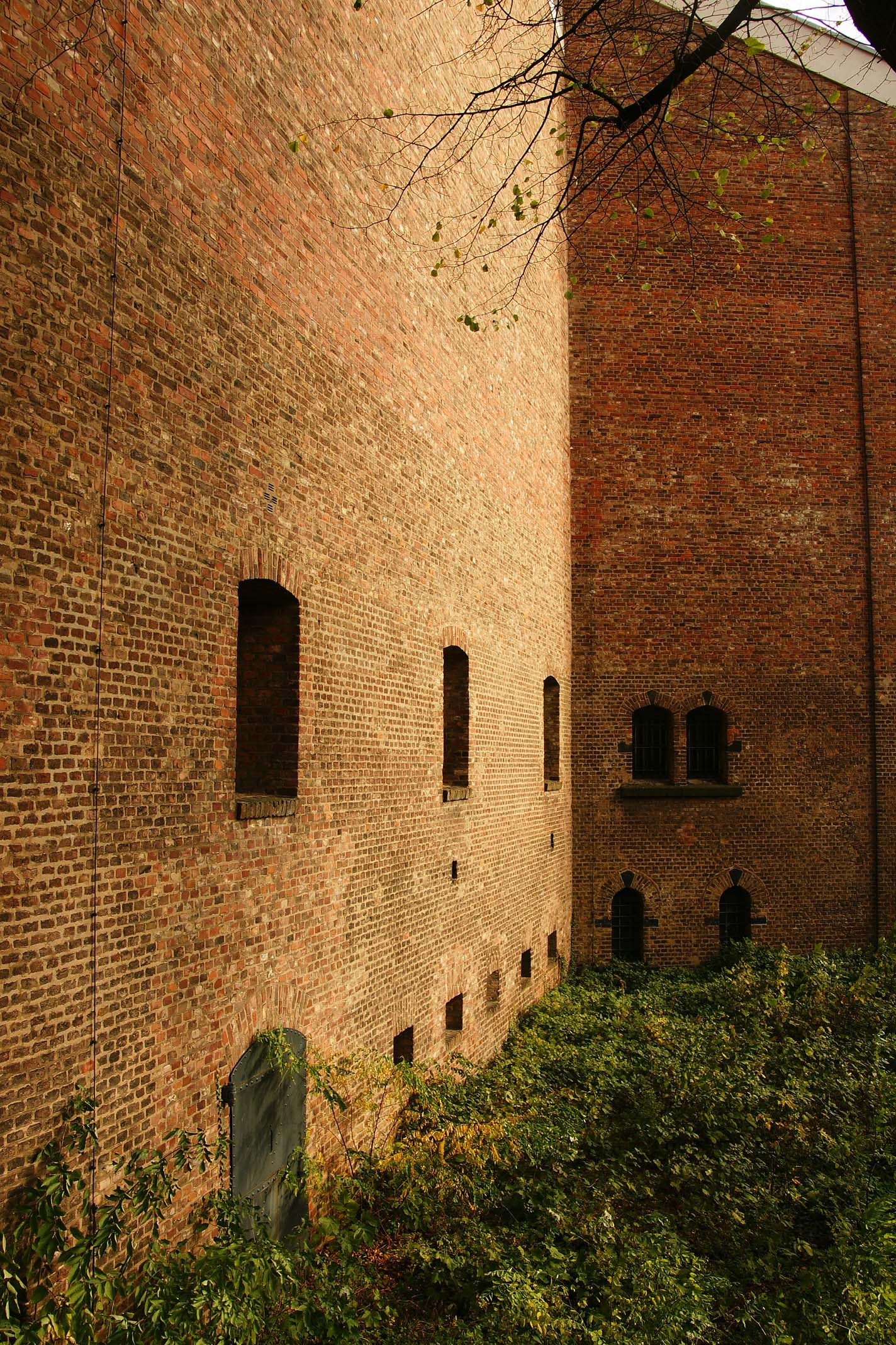 Friedenskirche zu den Heiligen Engeln und altes Fort Fusternberg